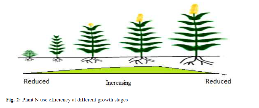 Plant N use efficiency at different growth stages